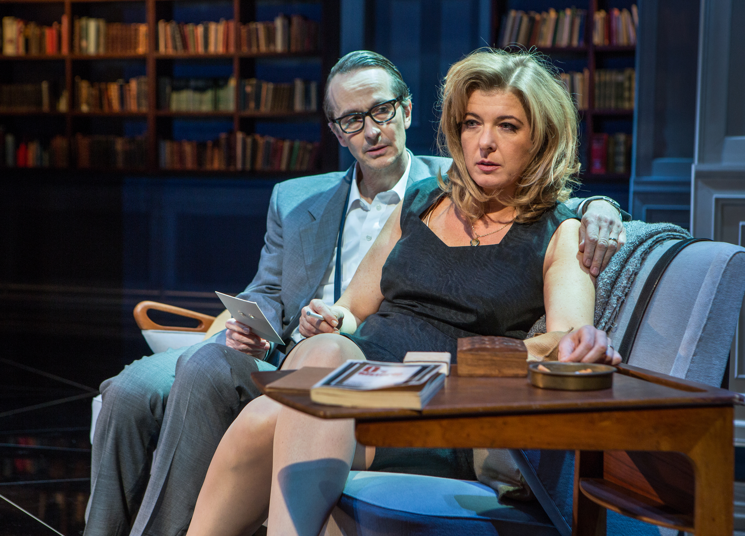 Lars Brygmann as Victor Andreasen and Paprika Steen as Tove Ditlevsen in the Copenhagen theater Folketeatret's production of the play "Toves værelse – Tove Ditlevsens sidste kærlighed" by Jakob Weis.